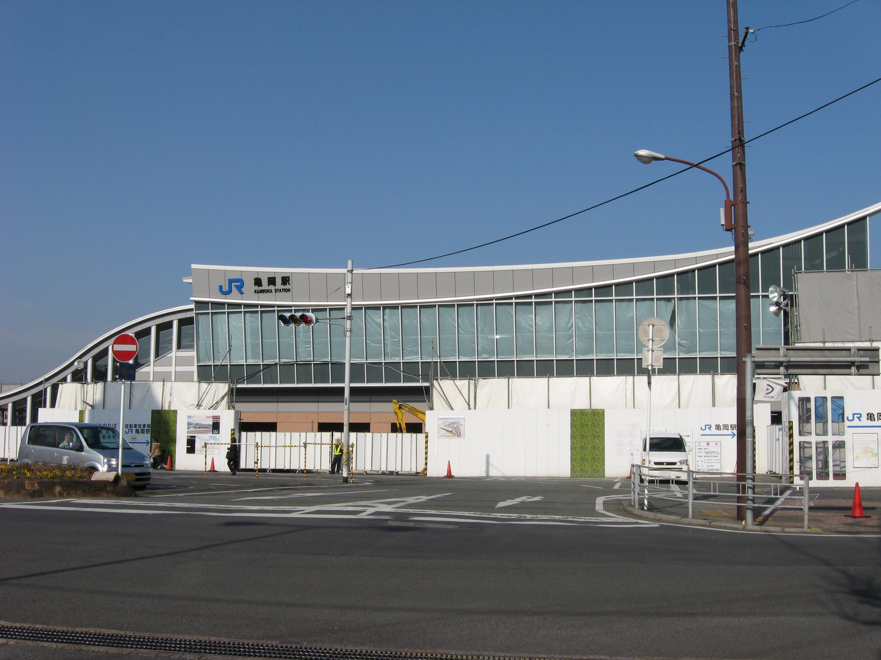 JR Kameoka Station Building Under Construction